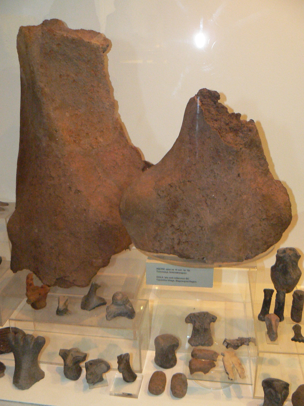 Idols from the end of 6th millenium BC, found near village Topolnitsa, Blagoevgrad District, Bulgaria. Exhibits of the National History Museum of Bulgaria